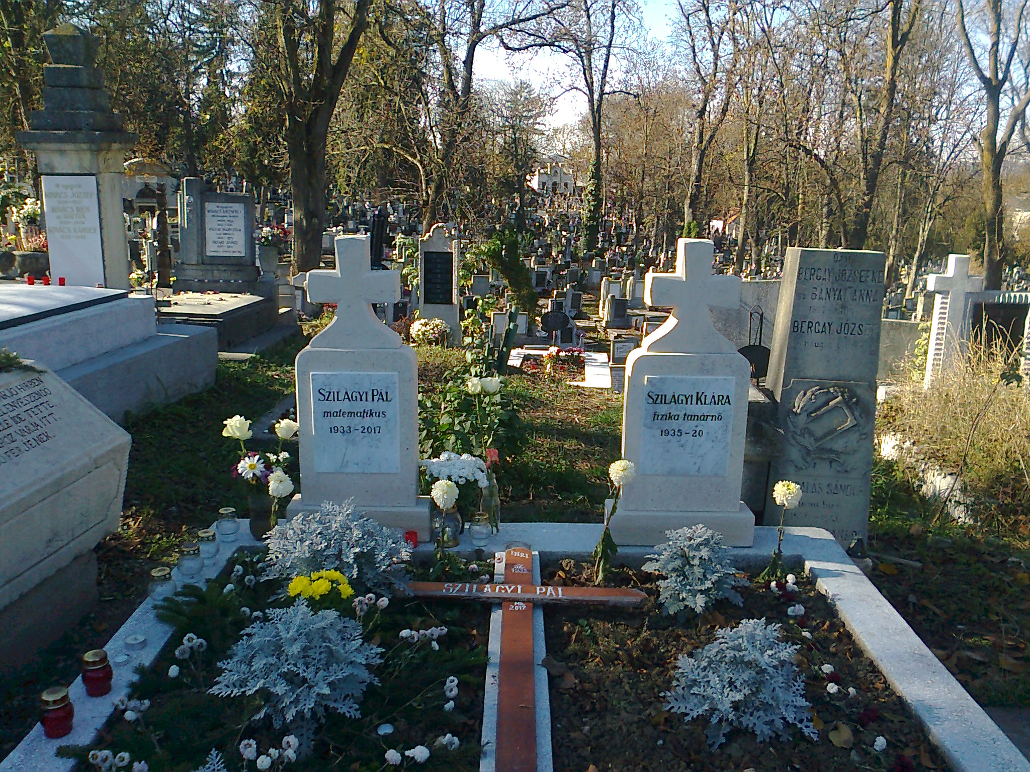 Grave of mathematician Pál Szilágyi (1933-2017)